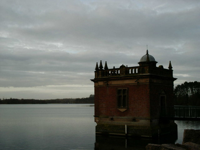 Pump house on Swithland res. An early morning view on a dull day.